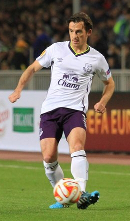 Leighton Baines with Everton FC